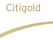 Citigold logo, and let me make it blatantly obvious that this is blatantly a simple logo.